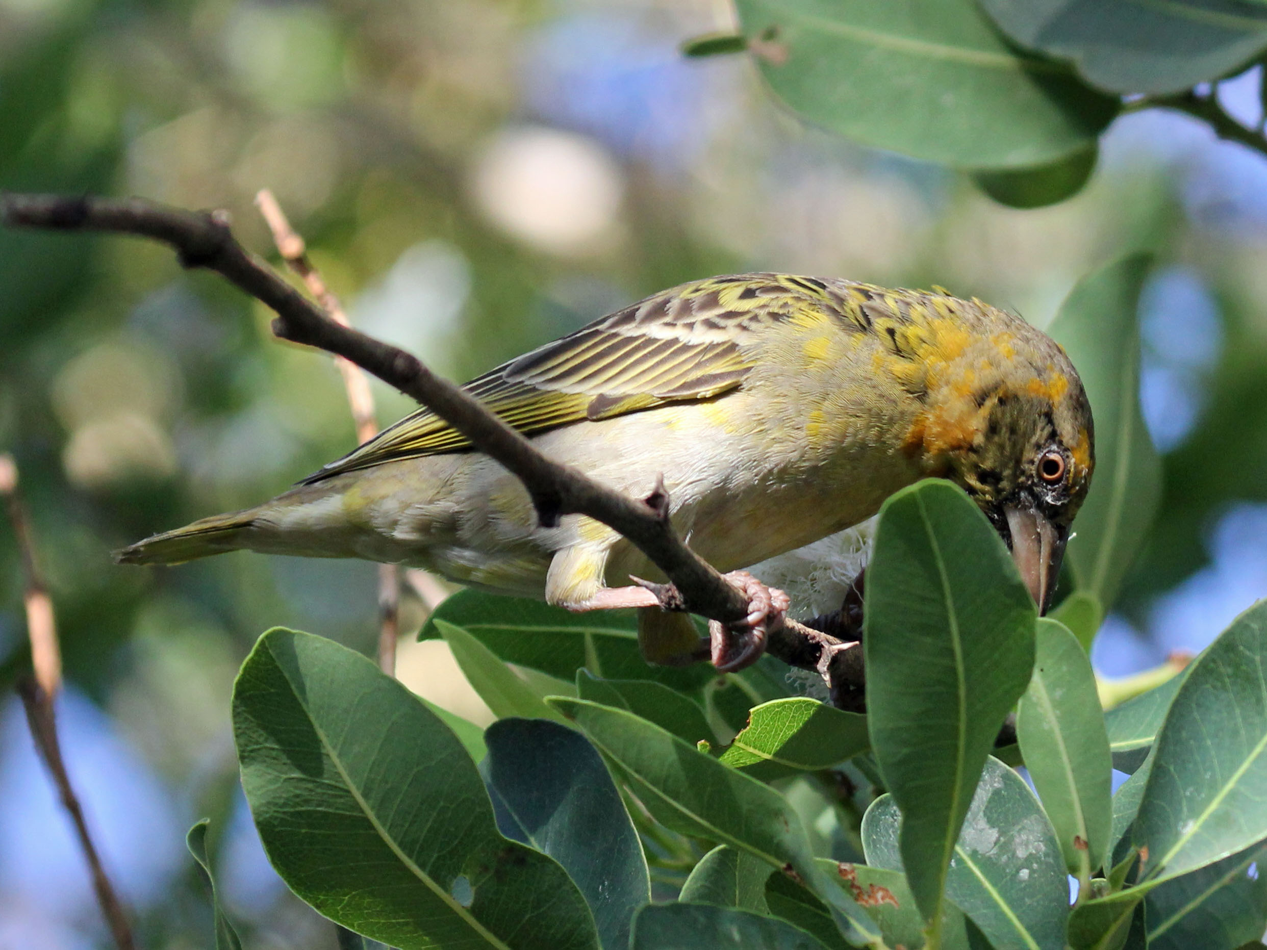 Female Speke's Weaver (Ploceus spekei) - Keekorok Lodge in the Masai Mara, Kenya